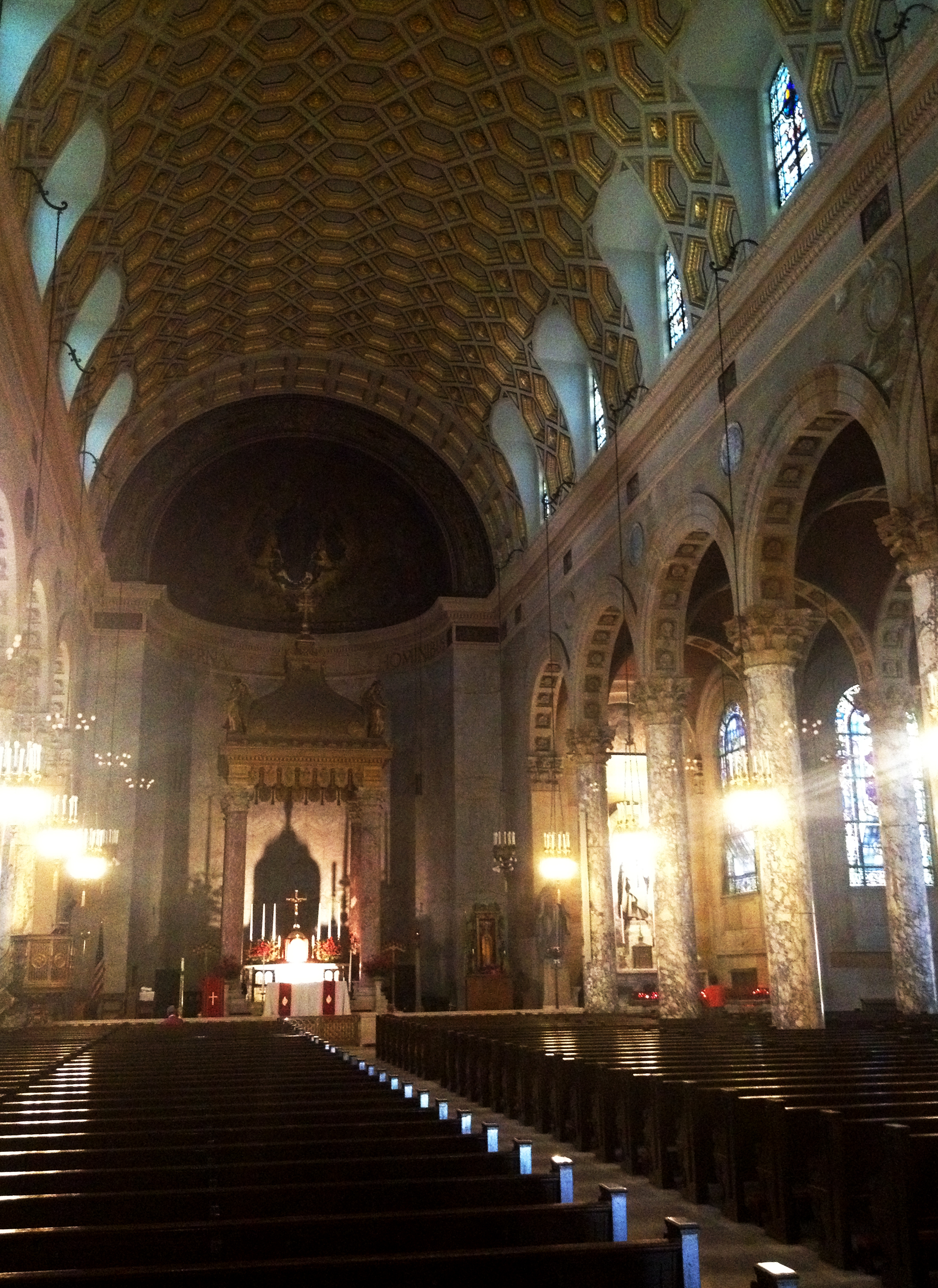 Interior. View of the Nave of the Basilica of the Immaculate Conception in Waterbury, CT